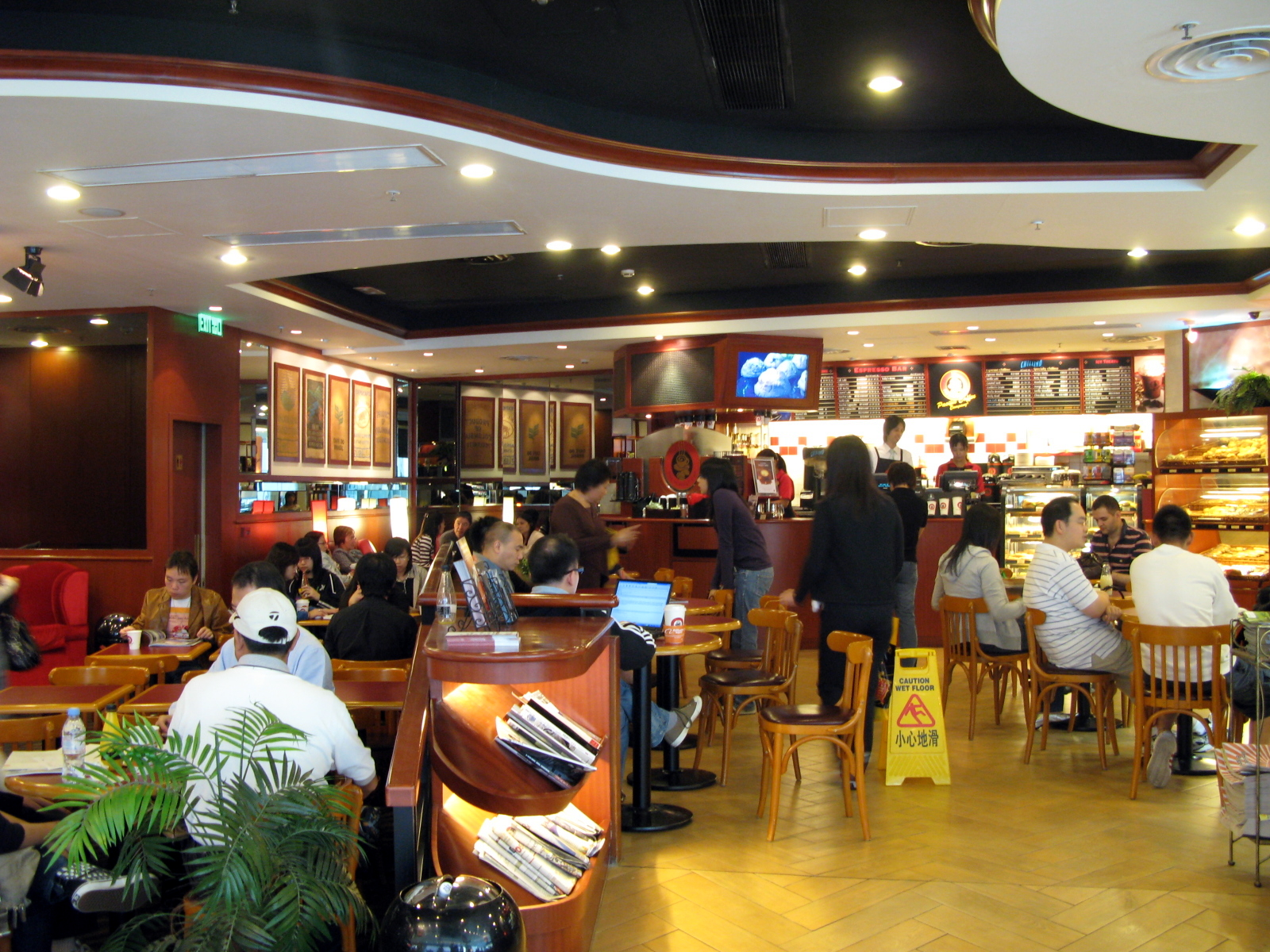 Pacific Coffe Shop in Central ifc